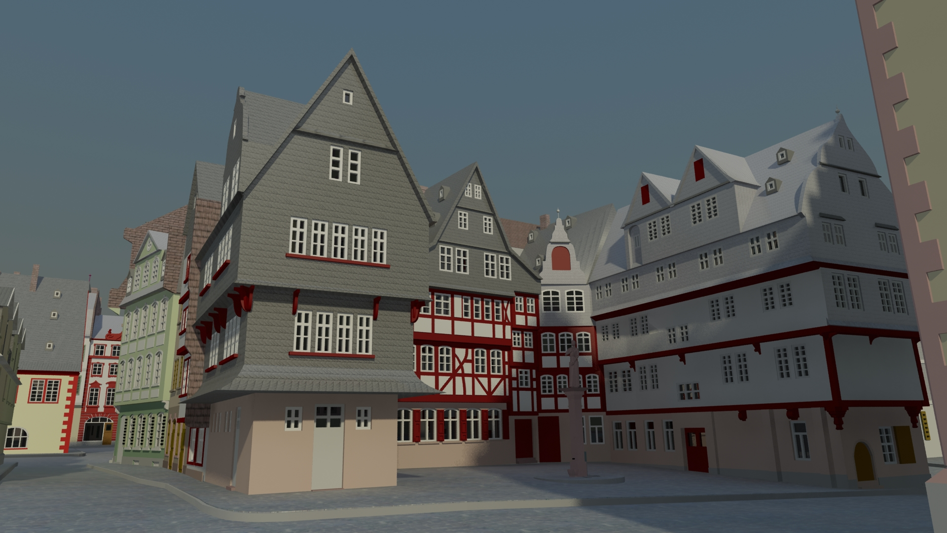 Frankfurt on the Main: Set of houses at the Grosse Fischergasse (Great Fisher Lane) called Roseneck as seen from the Weckmarkt (Roll Market) to the southwest